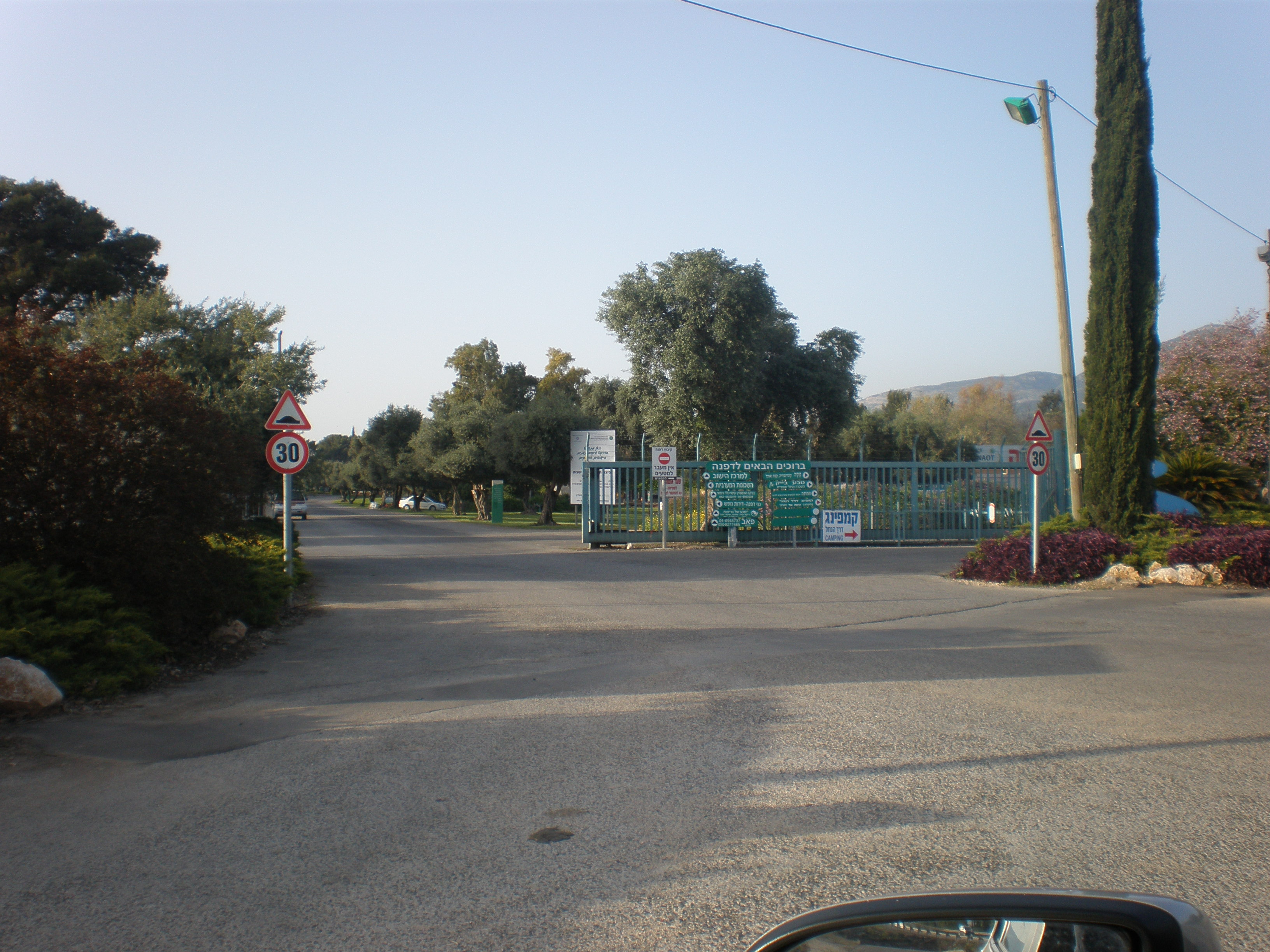 The entrance to Kibbutz Dafna